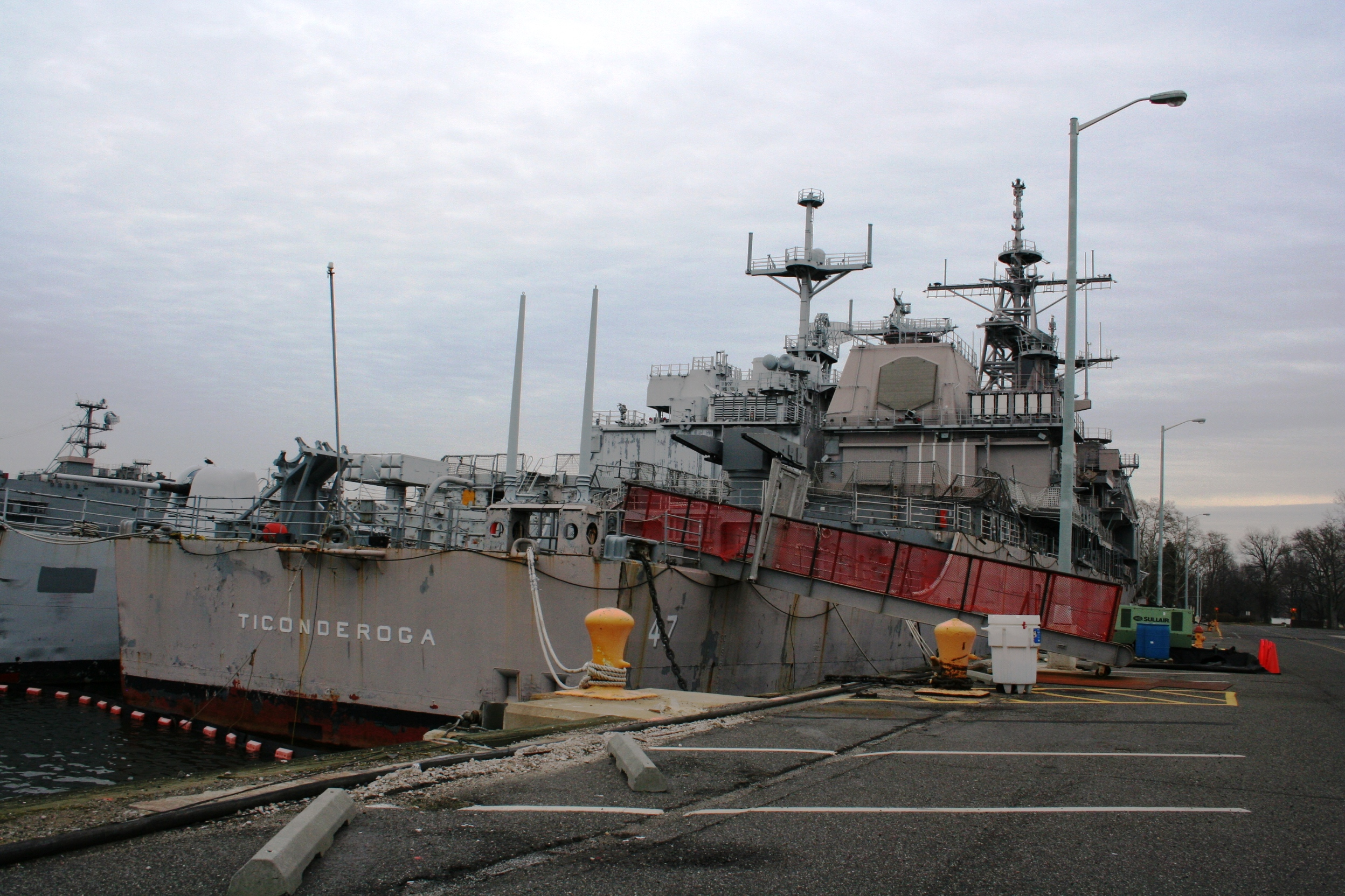 USS Ticonderoga at the Philadelphia Naval Shipyard Jan 2008